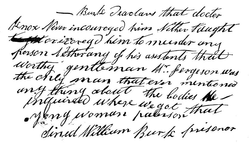 "Burke declares that docter Knox Never incoureged him Nither taught or incoregd him to murder any person Neither any of his assistents that worthy gentleman Mr. Fergeson was the only man that ever mentioned any thing about the bodies He inquired where we got that young woman PatersonSined William Burke prisoner"